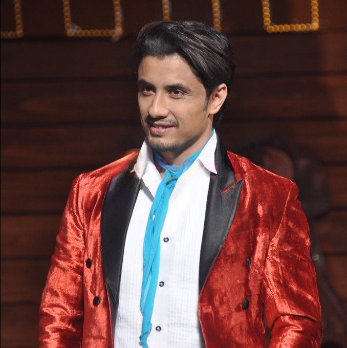 Zafar at the launch of 'Nakhriley' song from Kill Dil